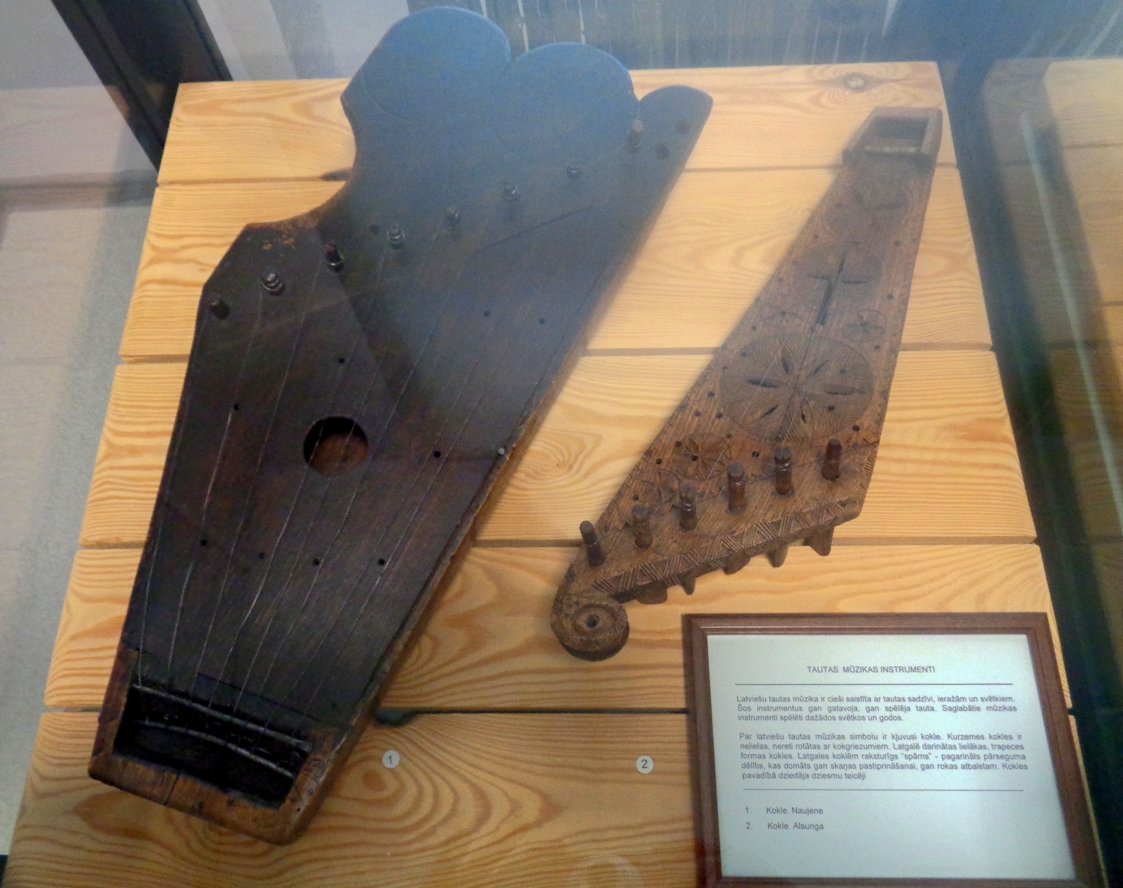 Latgale kokle from Naujene and Kurzeme kokle from Alsunga, National History Museum of Latvia.